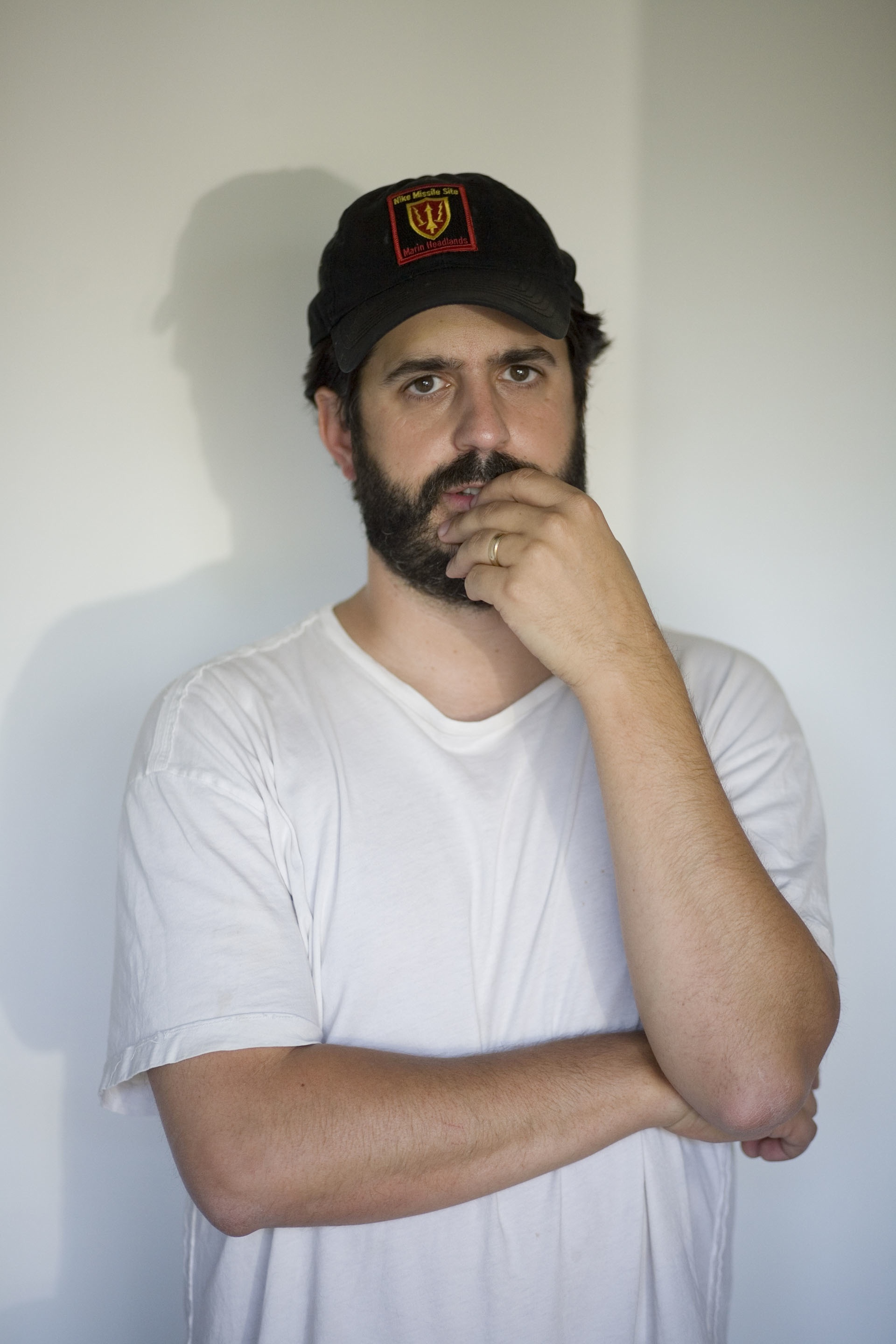 Photograph of Alec Soth taken in his studio.